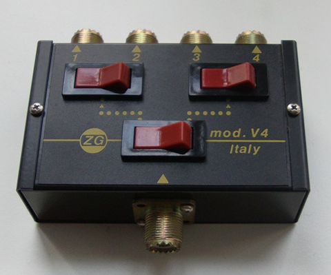 manually operated antenna switch, (amateur radio equipment)